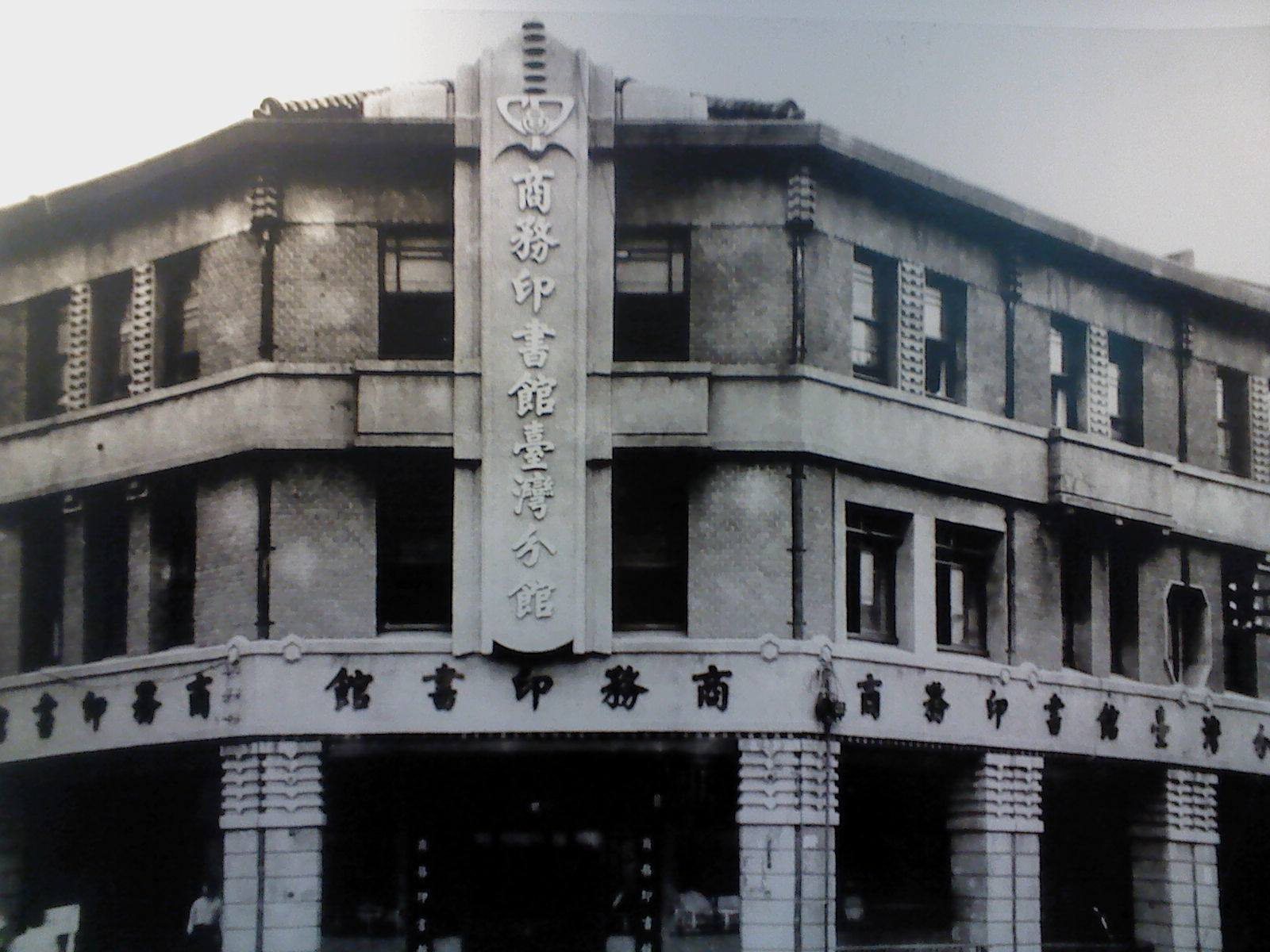 The Commercial Press, Ltd. Taiwan Branch building established in Taipei City, Taiwan, 1948-1968.中文（台灣）: 1948-1968年在臺灣臺北市設立的商務印書館臺灣分館建築。